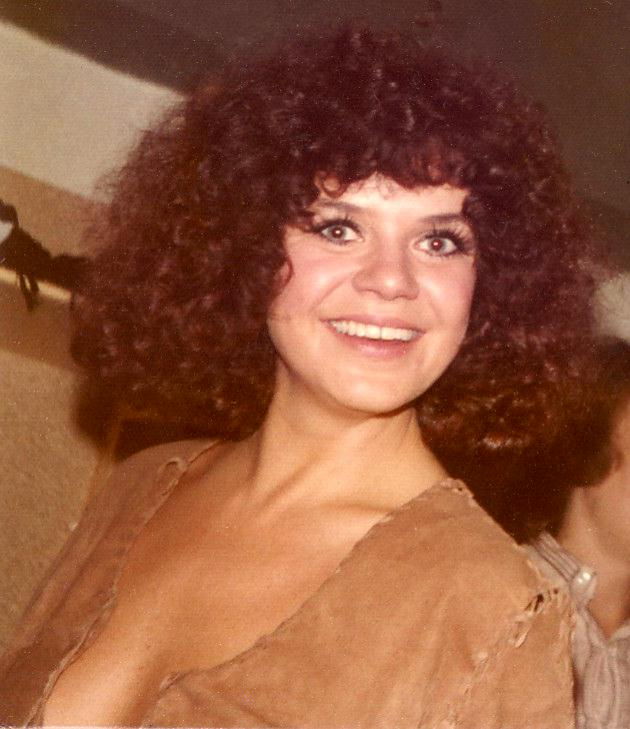 Swedish actress Agneta Lindén, as released by image creator Lars Jacob ProdPlace: Fattighuset, Döbelnsgatan 3, Stockholm, Sweden